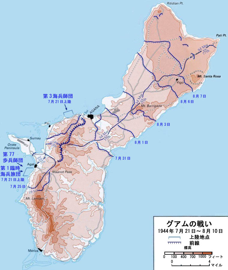 Battle of Guam map